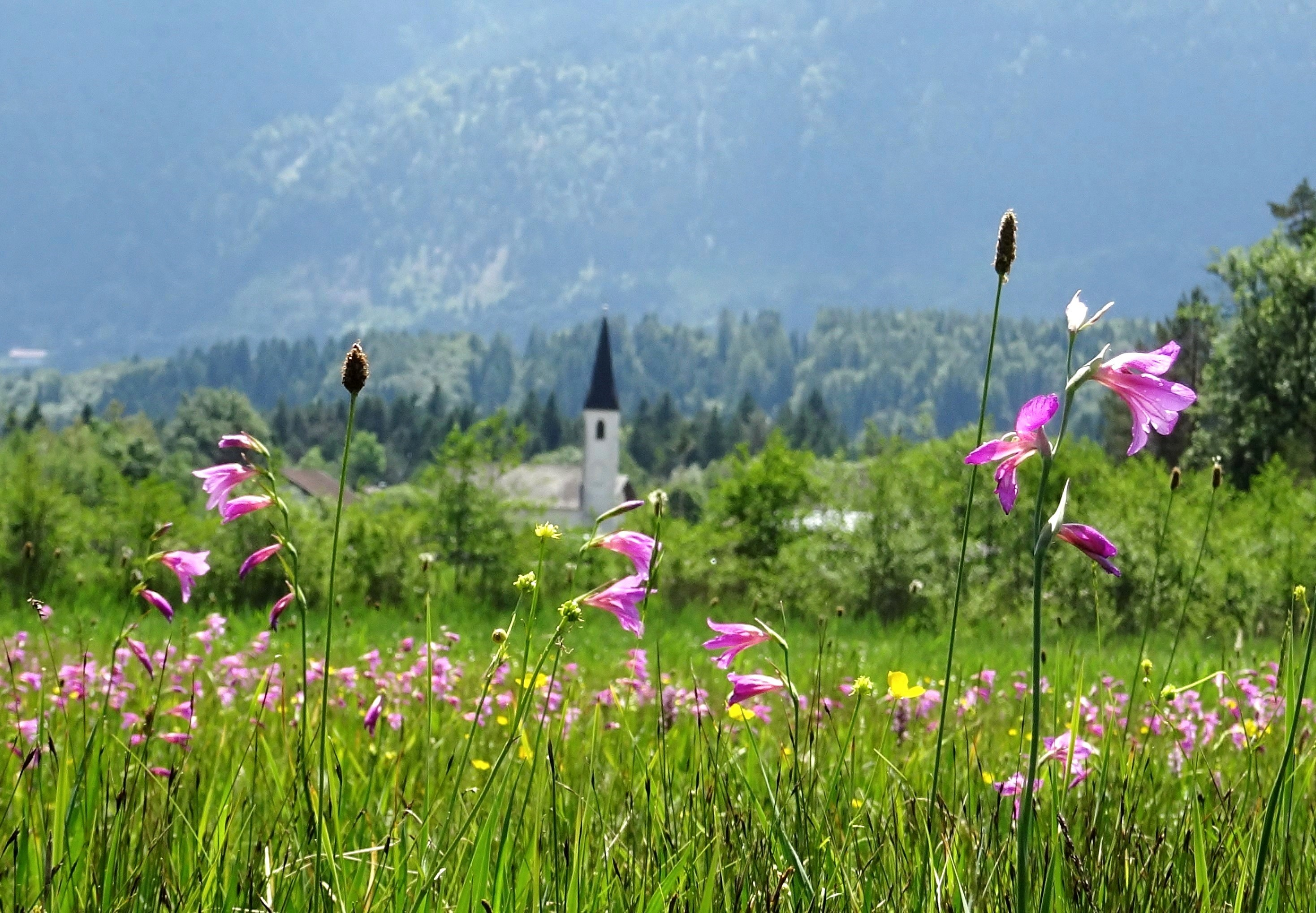 Gladiolus illyricus, occurrence near Oberschütt (Villach, Austria)